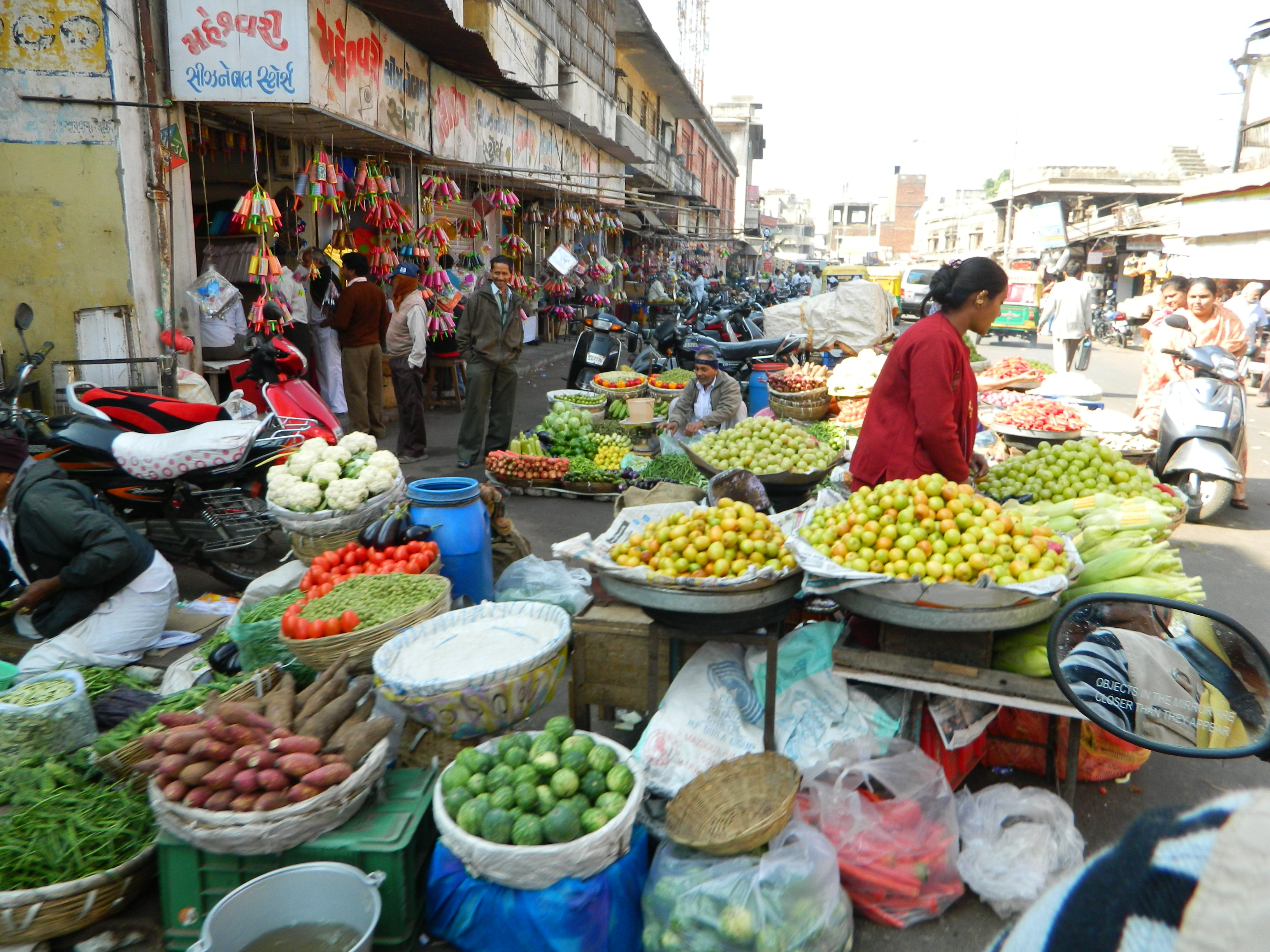 Vegetable Market In Old City